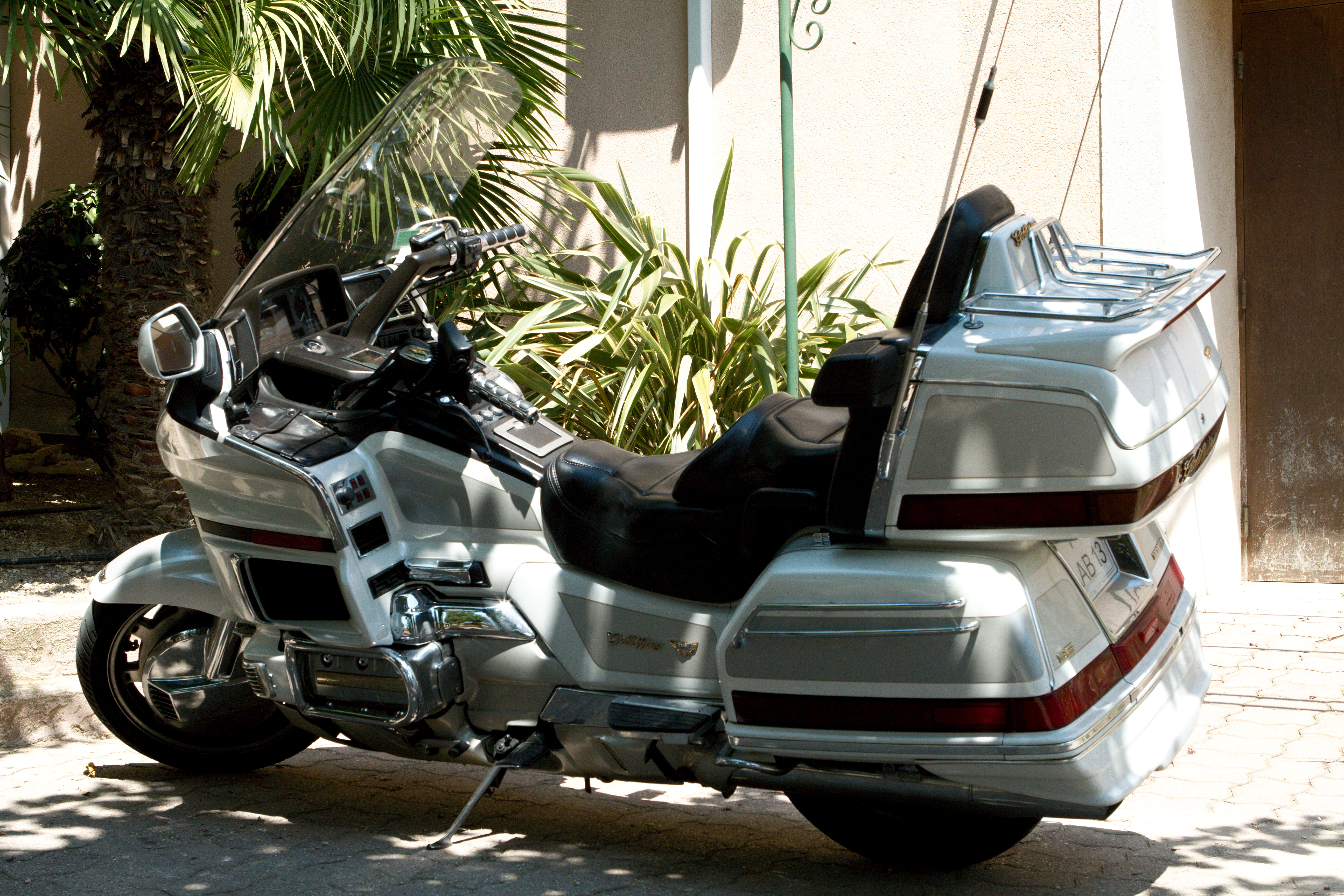 Honda Goldwing in Sausset-les-Pins (Bouches-du-Rhône, France).